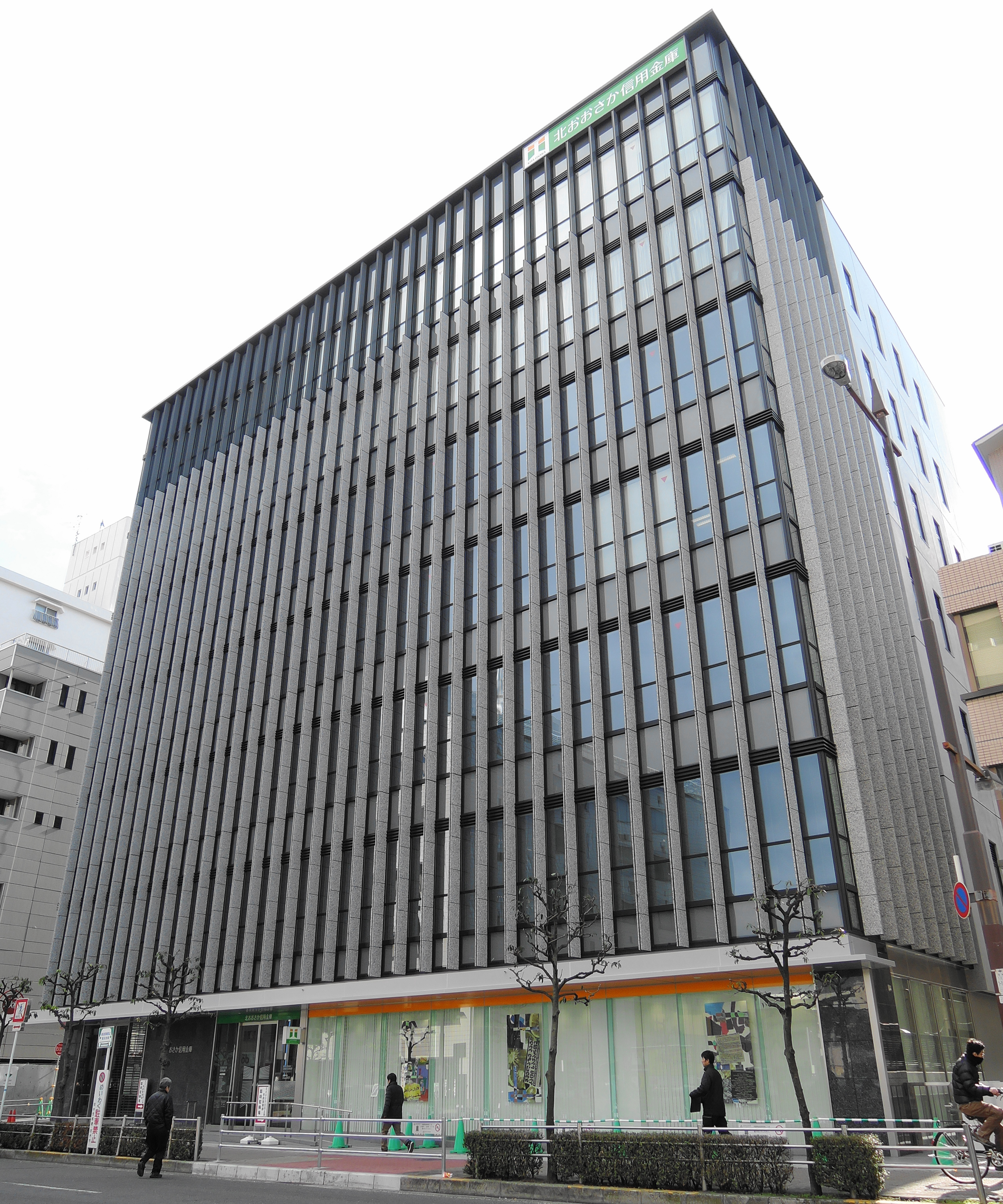 Head office of KITA OSAKA SHINKIN BANK,Osaka prefecture,Japan